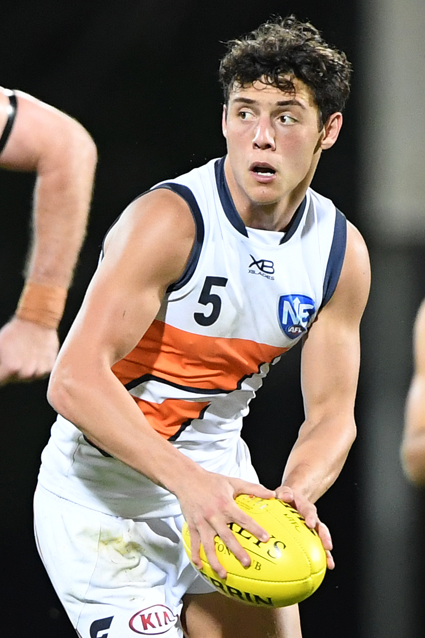 Jye Caldwell of Greater Western Sydney during the 2019 NEAFL round 15 match between NT Thunder and Greater Western Sydney at TIO Stadium on Saturday, 13 July 2019 in Darwin, Australia.